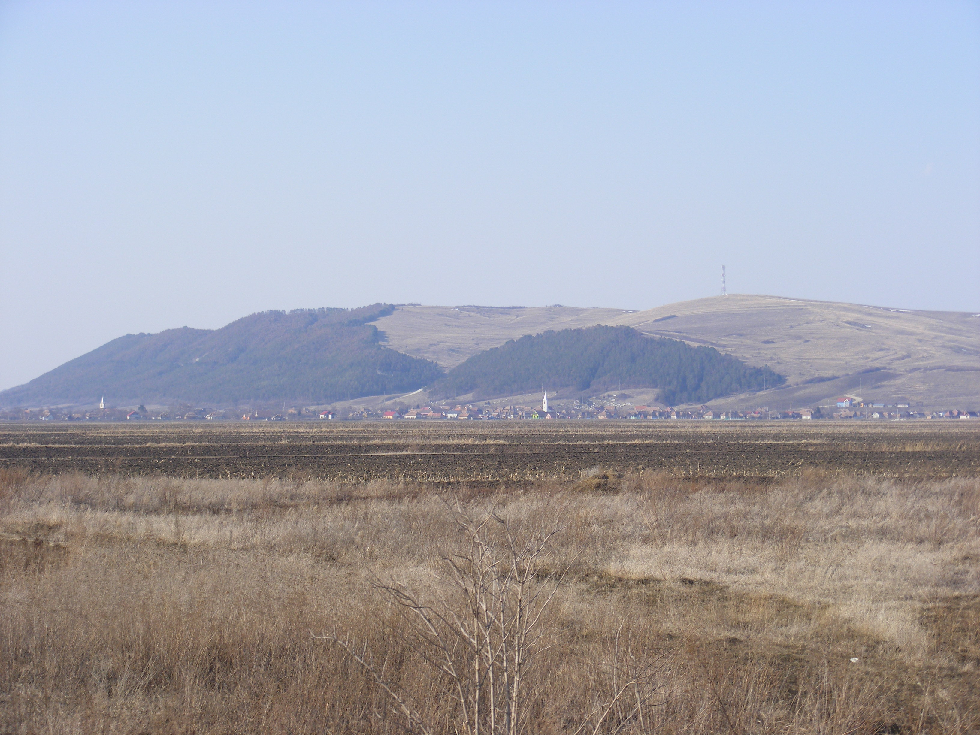 View of Hădăreni, Mureș County, Romania.